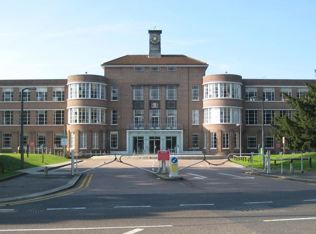 Watford: West Herts College, Hempstead Road campus The College was built in the grounds of the 17th-century dower house, Little Cassiobury, off the Hempstead Road. It was one of four campus sites in use by the College until a new Watford Campus building opened in 2010. Known as the Lanchester Building, it was designed by the architects Henry Vaughan Lanchester and Thomas Arthur Lodge in 1938.